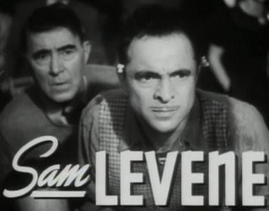 Sam Levene in the film Sunday Punch (1942), directed by David Miller - trailer (cropped screenshot)